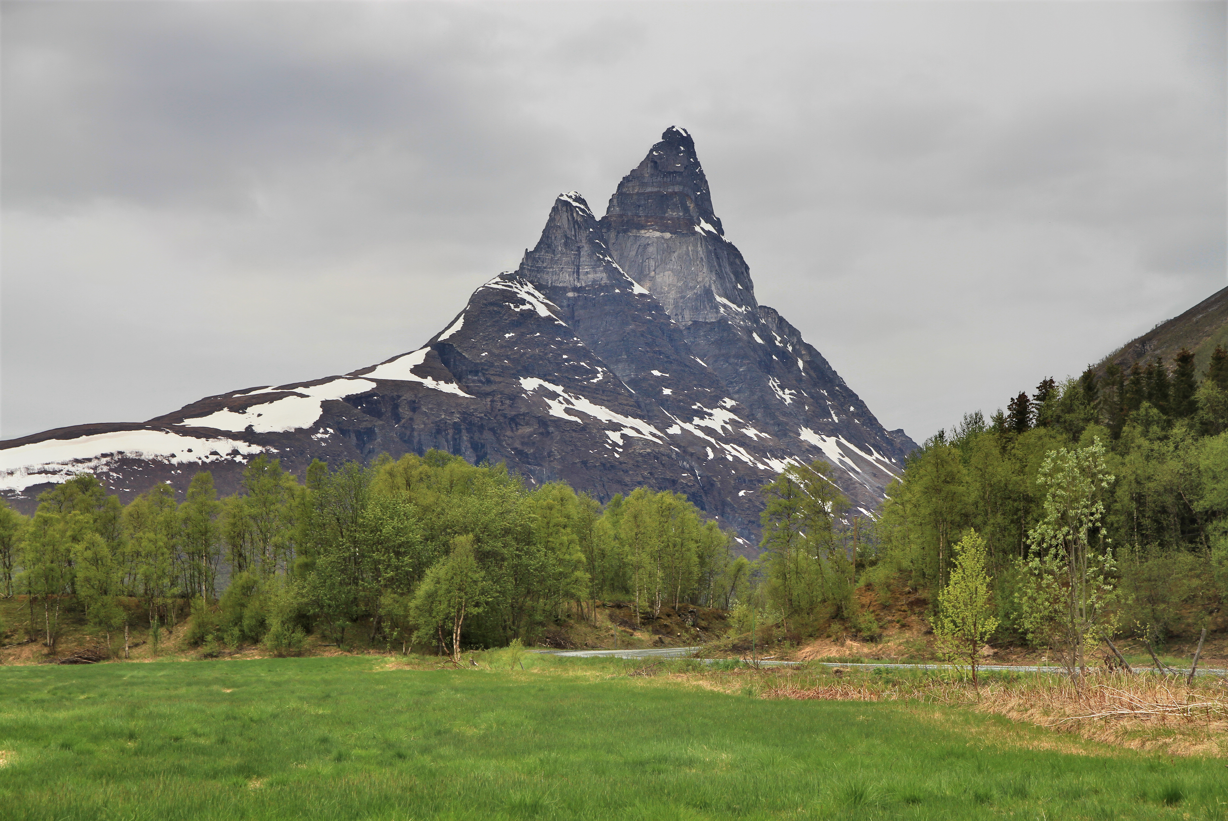 Otertinden as seen from the southeast in Signaldalen in 2011 June.